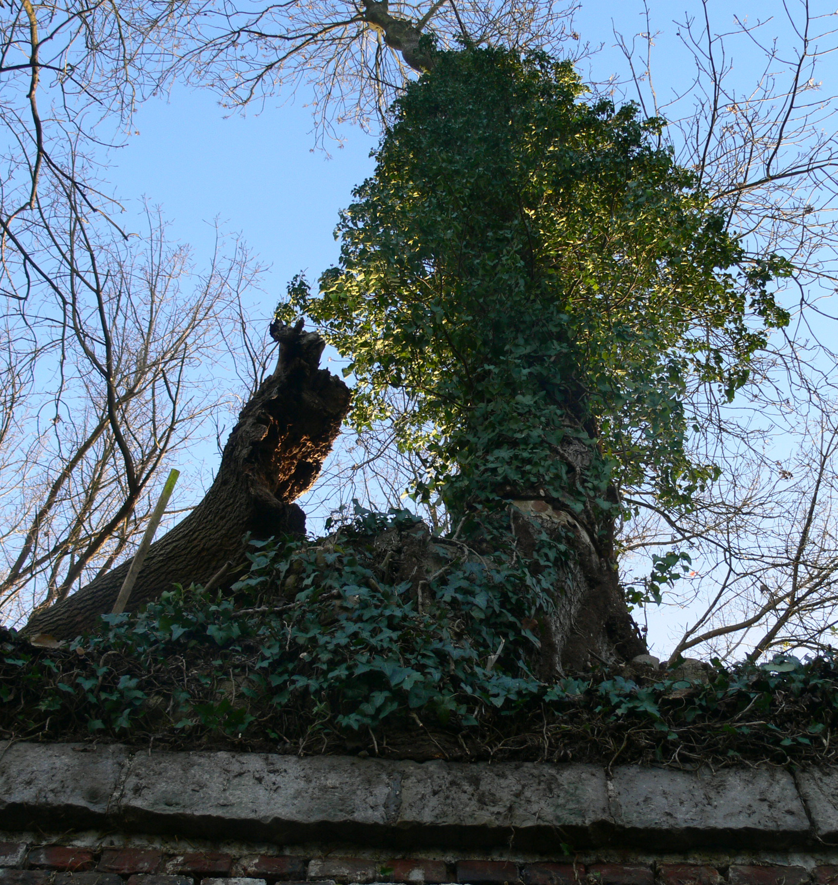 Girdling, also called ring barking or ring-barking, is the process of completely removing a strip of bark (consisting of Secondary Phloem tissue, cork cambium, and cork) around a tree's outer circumference, causing its death. Here girdling occurs by deliberate human action to give new habitats to species of dead woods (Lille, North of France, Parc de la Cidatelle (Bois de Boulogne)